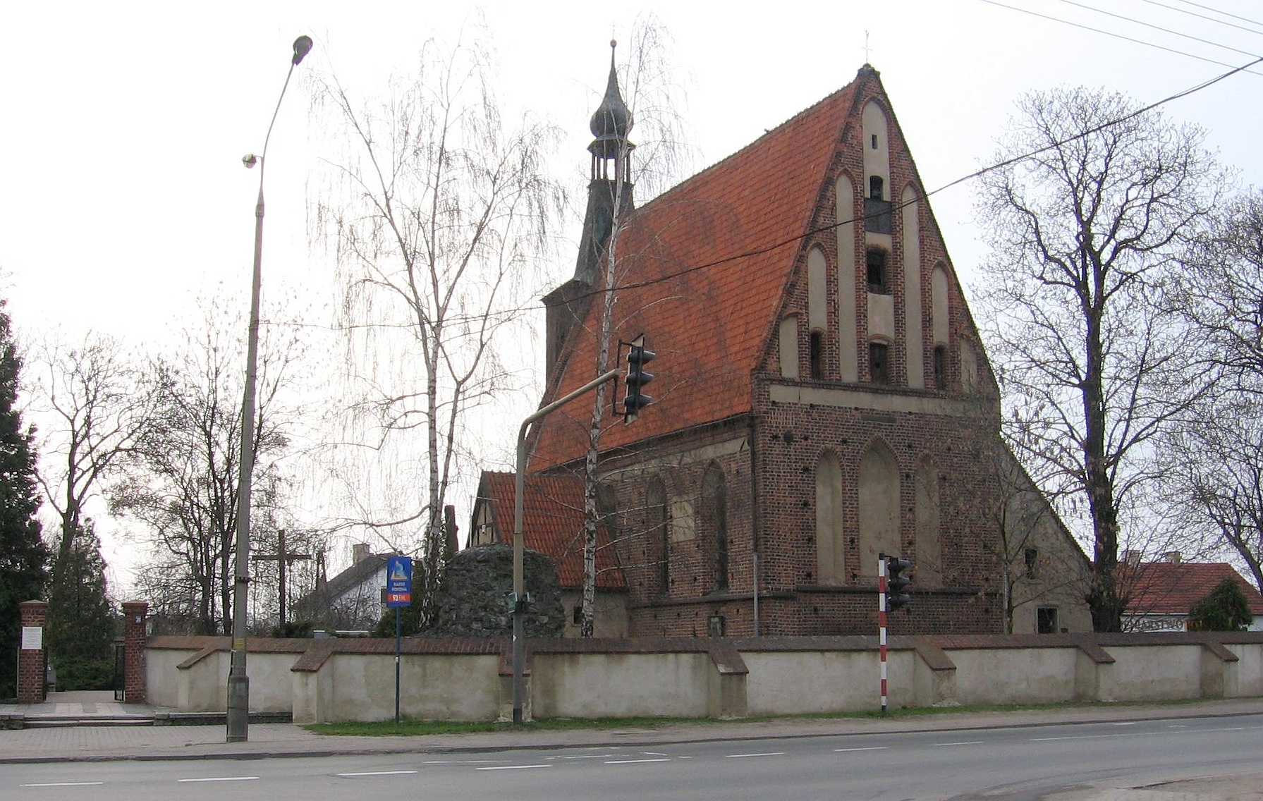 St. Andrew the Apostle Church (built 15th century) in Bielany Wrocławskie south of Wrocław, Poland